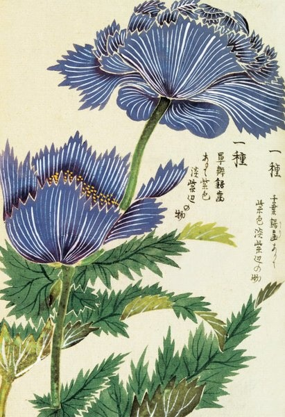 Papaver somniferum var paeoniflorum, 'Honzō zufu' (Illustrated manual of medicinal plants) by Kan'en Kan'en Iwasaki; (1786-1842). Wood block print and manuscript on paper. Japan, 1828. Inscription reads 'Found purple one at Mount Nokogiri, Chiba'